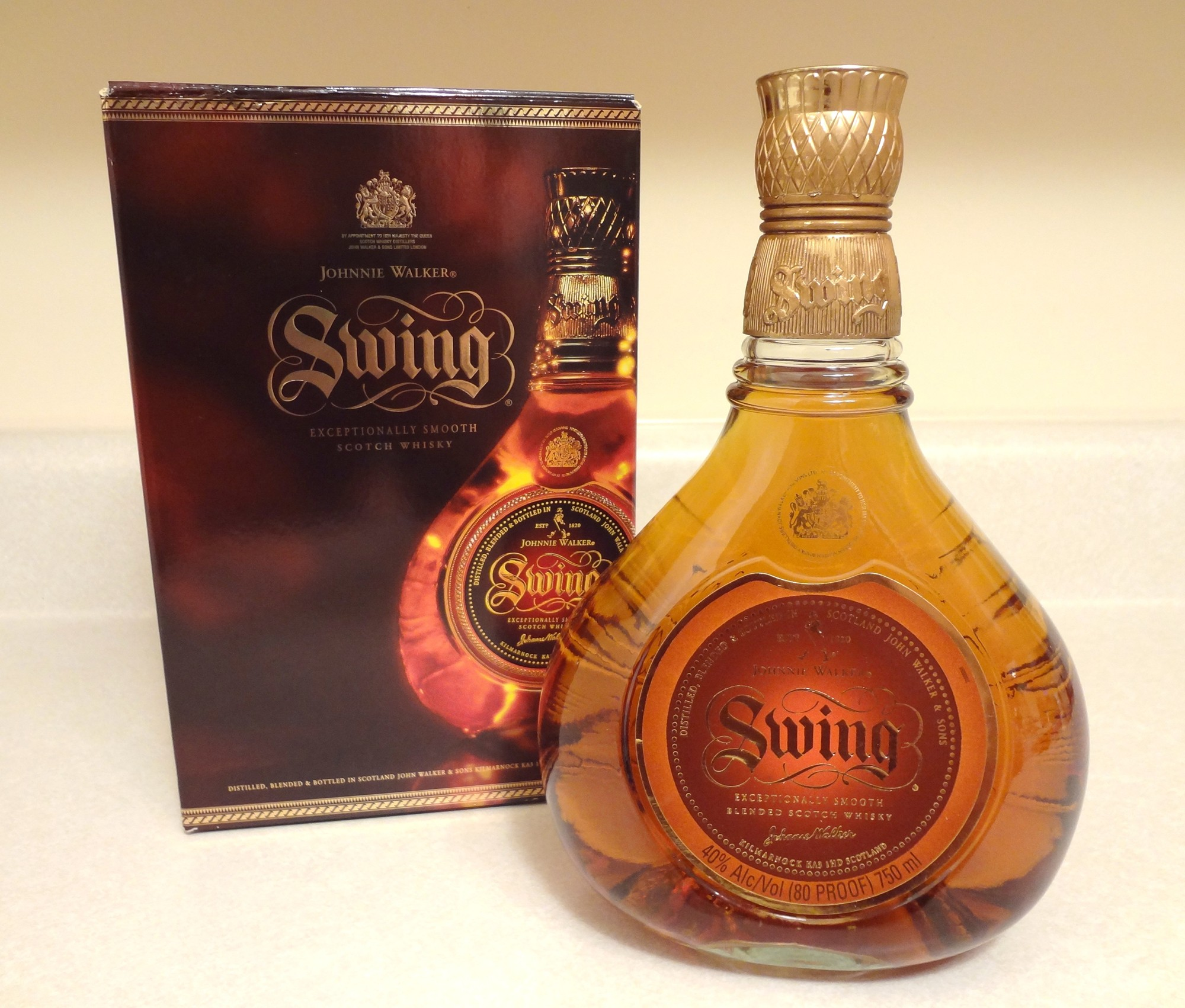 JW Swing